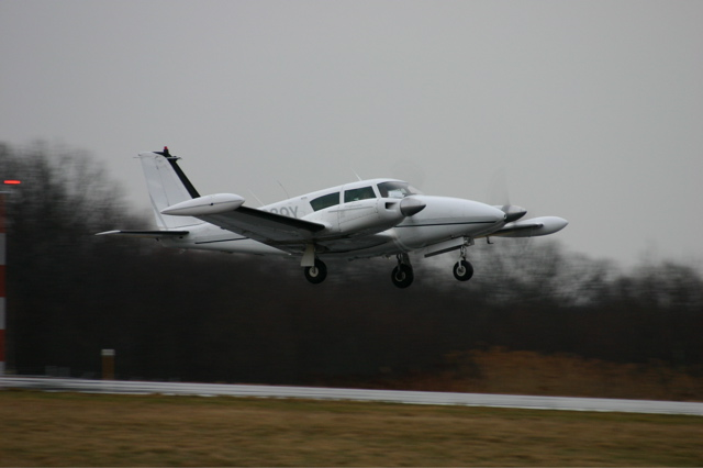 My own photo Image of a Piper PA-30 Twin Comanche landing